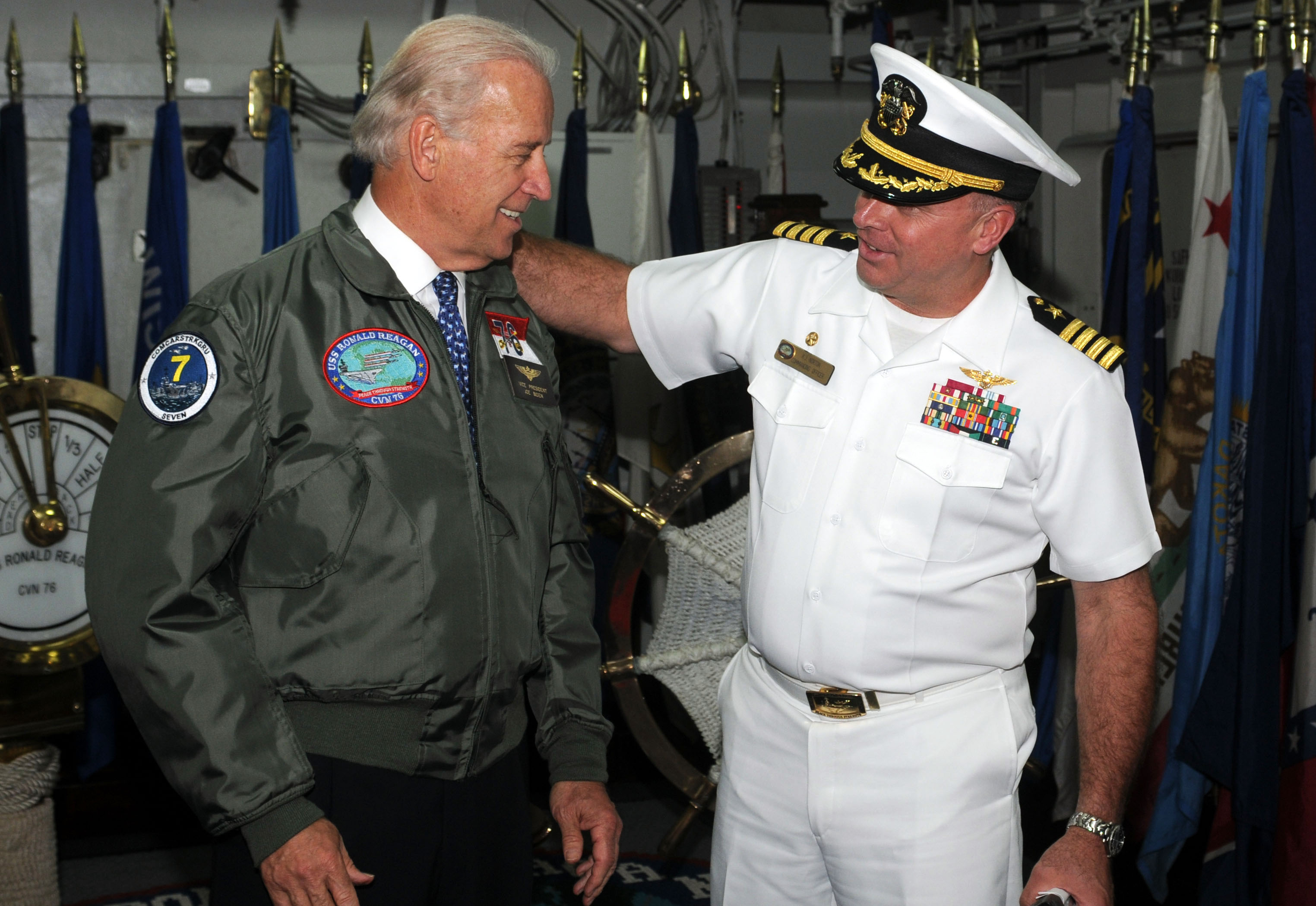 NAVAL AIR STATION, North Island (May 14, 2009) Vice President, Joe Biden receives a flight jacket from the Commanding Offficer of USS Ronald Reagan Capt. Kenneth Norton on the quarterdeck aboard the Nimitz-Class aircraft carrier USS Ronald Reagan (CVN 76). The Vice President and his wife, Dr. Jill Biden, visited Ronald Reagan during a familiarization tour of naval facilities in the San Diego area. Reagan is preparing for its upcoming deployment to the Western Pacific and Indian Ocean later this spring. (U.S. Navy photo by Mass Communication Specialist 3rd Class Benjamin Brossard/Released)